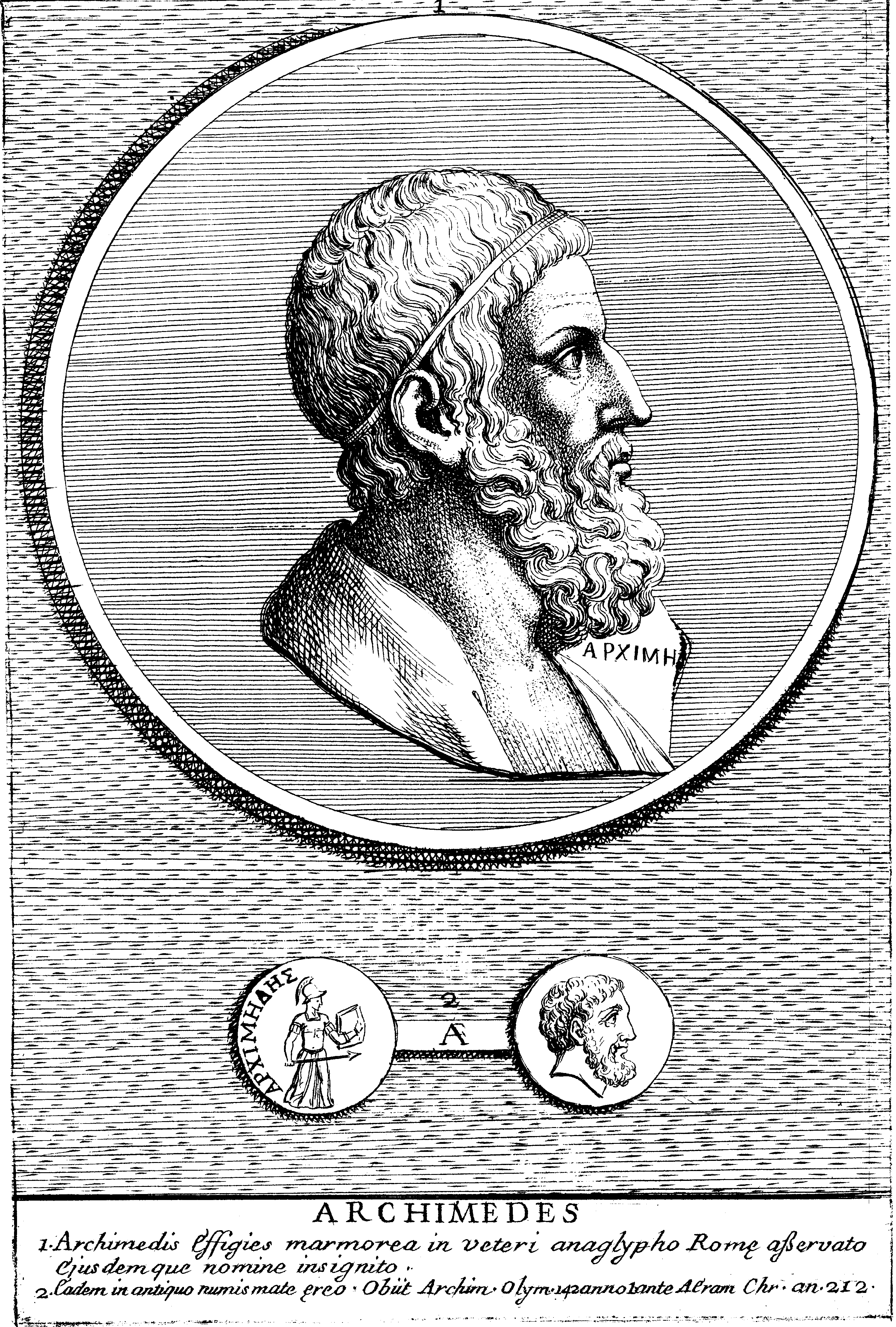 Bust of Archimedes. Antique engraving from the title page of a collection of Archimedes' works edited by Joseph Torelli in 1792.